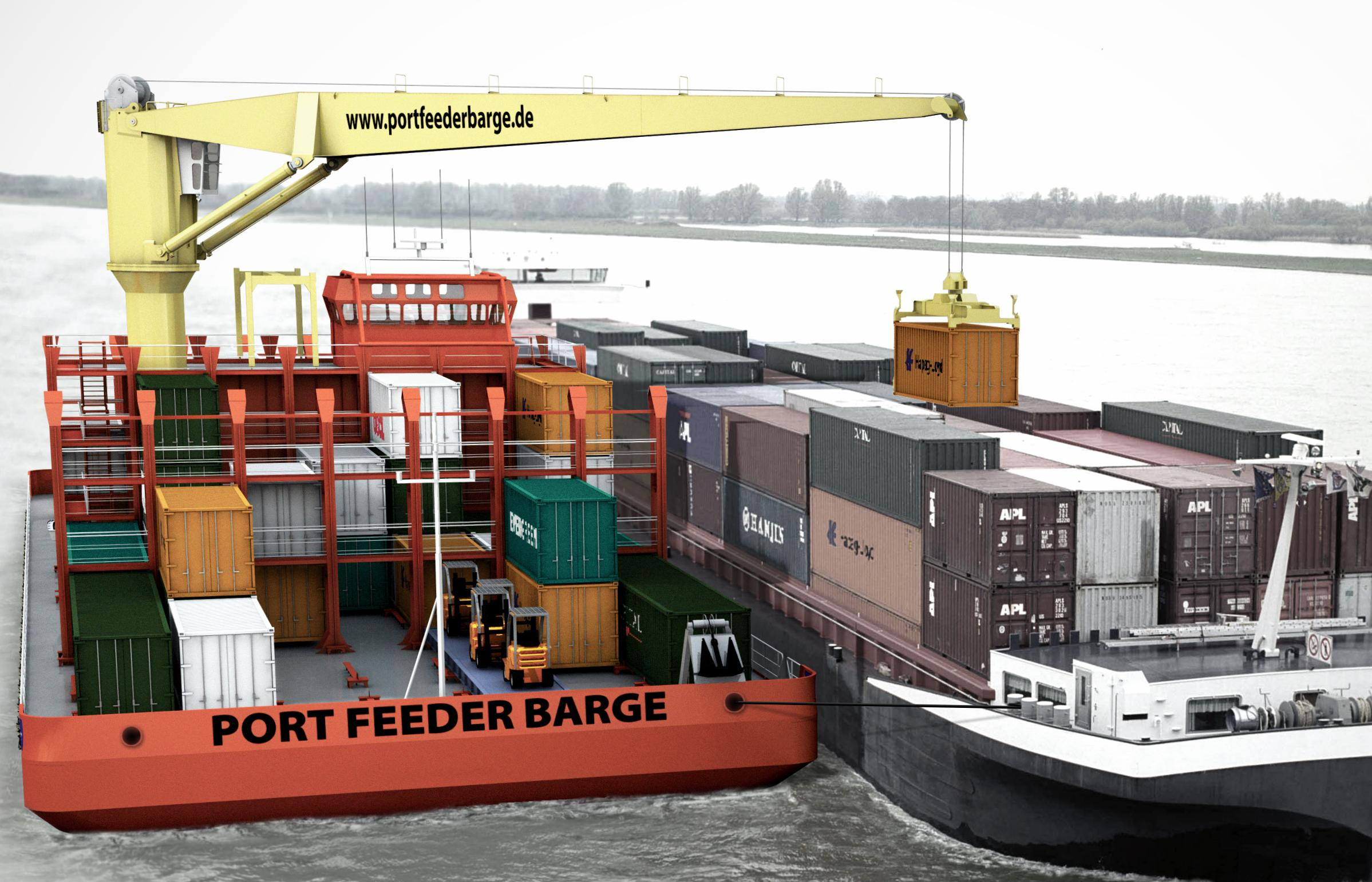 type: self propelled double-ended self sustained container barge length: 64.00 m beam: 21.00 m height to main deck: 4.80 m max. draught (as seagoing vessel): 2.00 m max. draught (as harbour vessel): 3.10 m deadweight (as seagoing vessel): 1,000 mt deadweight (as harbour vessel): 2,500 mt gross tonnage: approx. 2,000 BRZ engine configuration: diesel-electric propulsion: 4 x rudder propeller of 4 x 280 kW speed: 7 knots at 3.1 m draught class: + GL 100 A5 K20 BARGE EQUIPPED FOR THE CARRIAGE OF CONTAINERS SOLAS II-2 RULE 19 + MC AUT capacity: 168 TEU (thereof 50% in cellguides) 14 reefer plugs crane: LIEBHERR CBW 49(39)/27(29) Litronic (49 t at 27 m outreach) spreader: automatic, telescopic, 6 flippers, turning device, overheight frame (telescopic) accommodation: 6 persons (in single cabins)